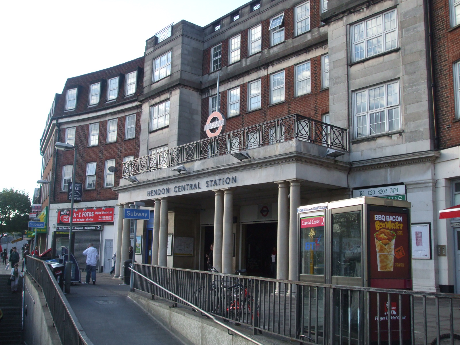 Entrance to Hendon Central tube station